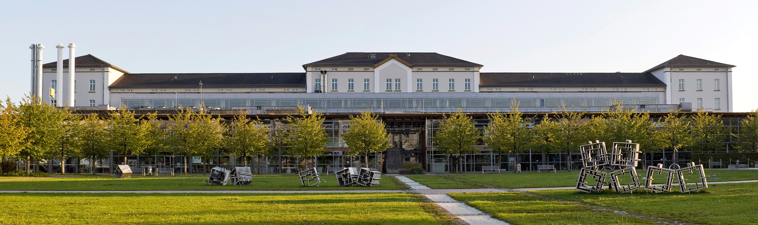 Department of Mechanical Engineering and Environmental Engineering at the University of Applied Sciences (FH) Amberg-Weiden